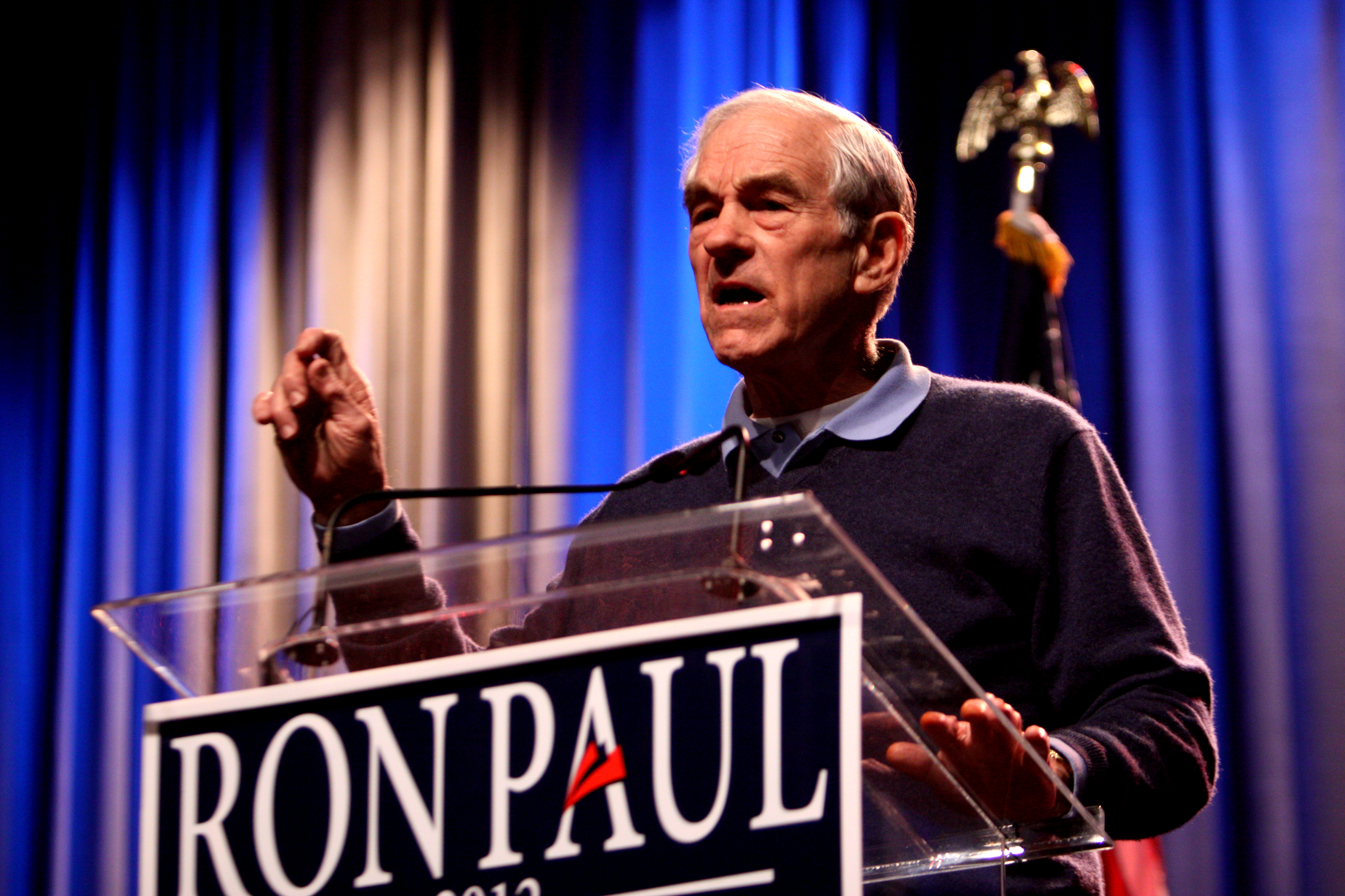 Ron Paul speaking to supporters at a rally in Reno, Nevada.